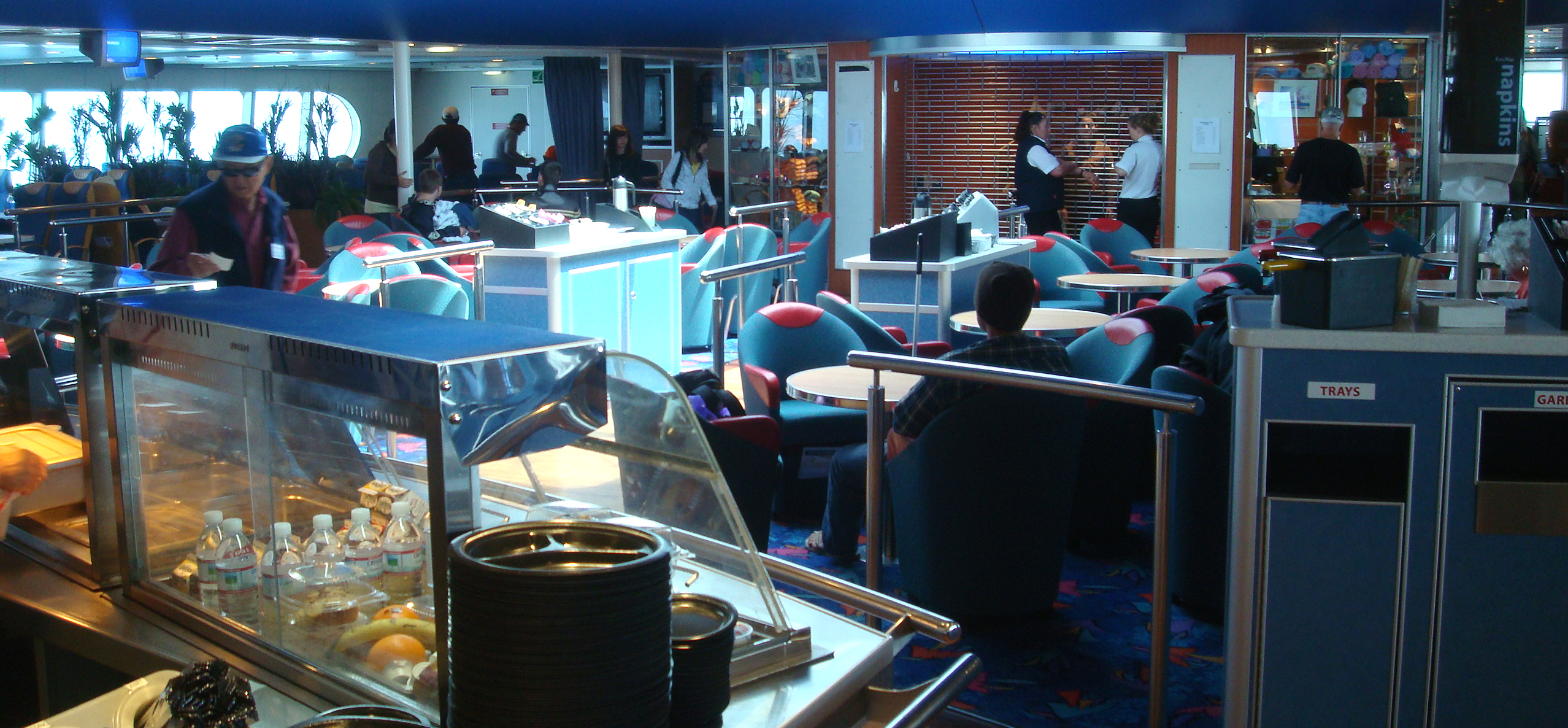 Main dining and lounge area, with two crew members about to open the gift shop in the background, on the CAT ferry, heading to Yarmouth, NS in Bar Harbor, ME